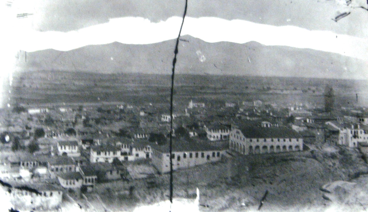 Panorama of the town of Florina, 1907 (damaged glass plate) This media file is produced by Wikipedian in Residence in Category:Wikipedian in Residence at DARM in 2016.